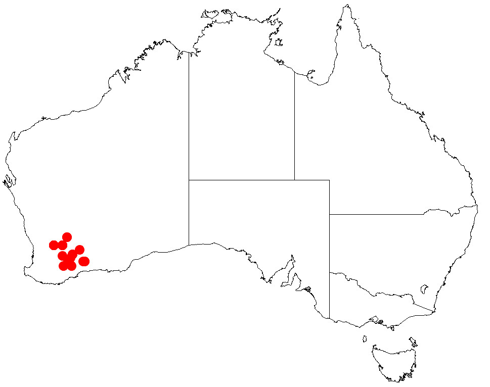 Acacia undosa occurrence data from Australasia Virtual Herbarium downloaded from on 8 December 2018